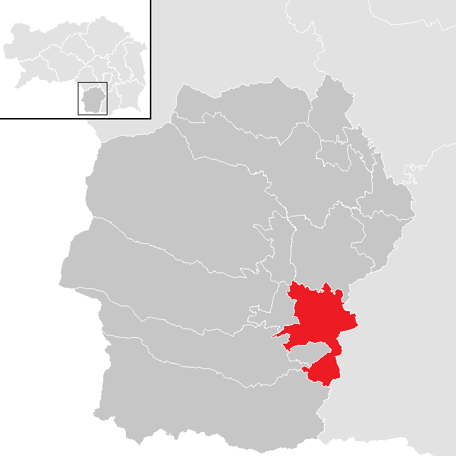 District Deutschlandsberg, Styria, Austria